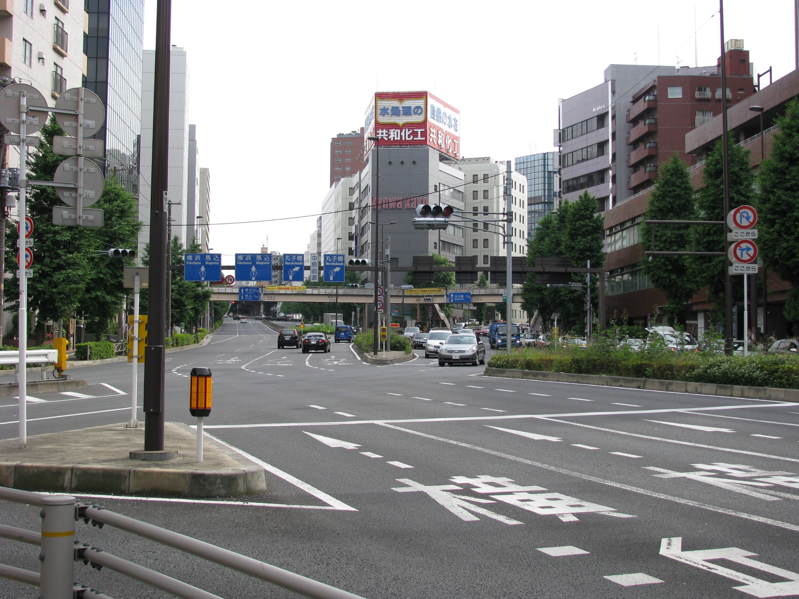 The Nakahara-guchi is crossing of Japan National Route 1 and Tokyo Prefecture Route 2. This located in Shinagawa, Tokyo, Japan.